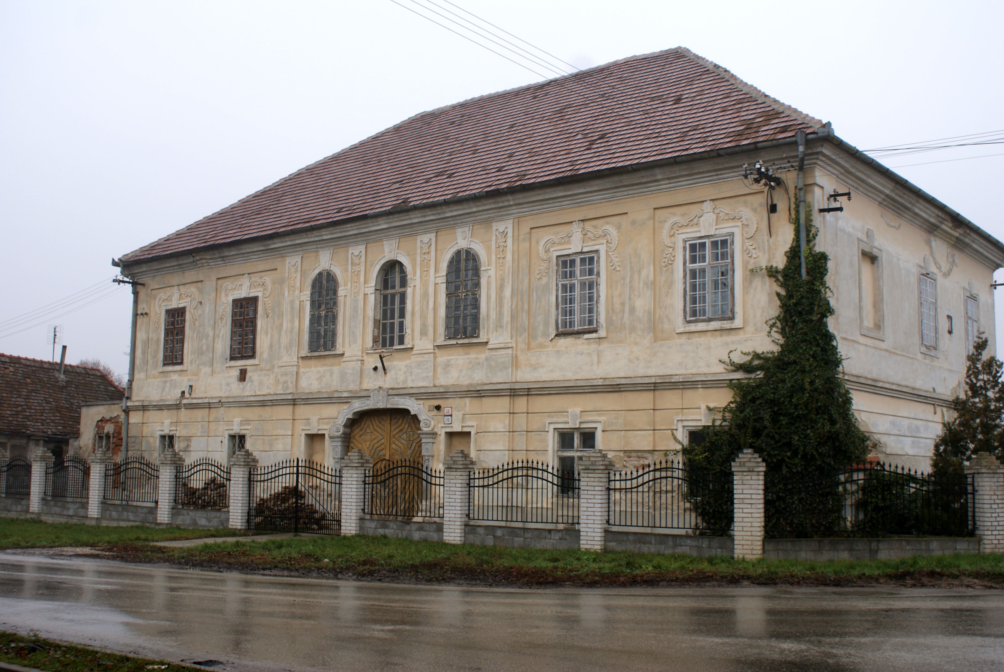 Cífer, Slovakia, manor house